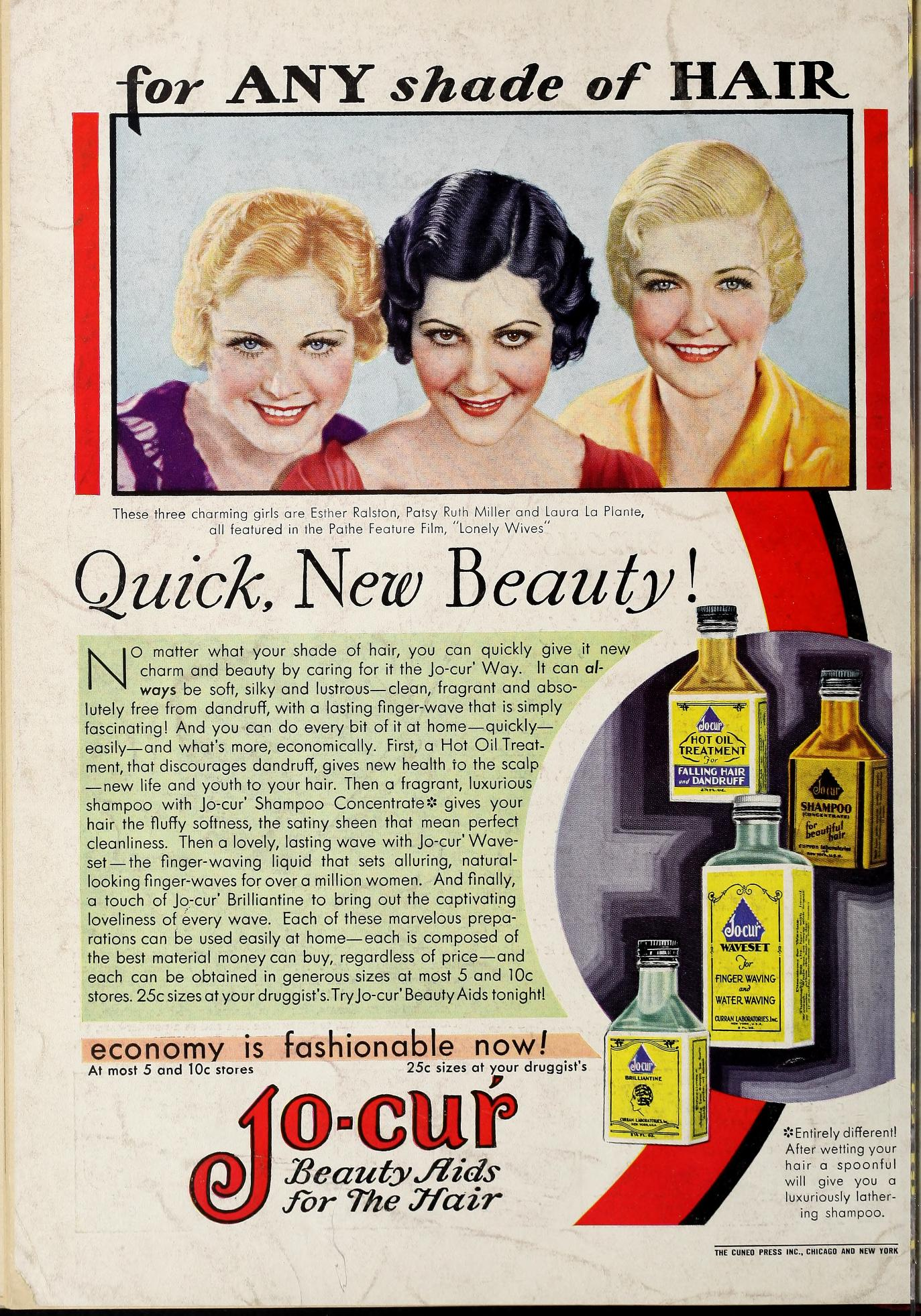 Tie-in advertisement for Jo-Cur Beauty Products and the 1931 film, Lonely Wives Other information for information regarding public domain for an explanation of the copyright